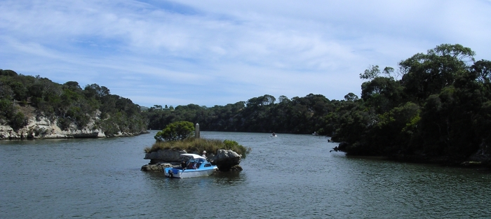 Glenelg River island with cenotaph.